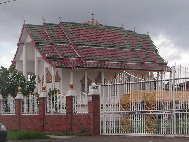 Wat Prayortkeo Dhammayanaram in Smithfield Road, Edensor Park, NSW. This a Buddhist temple for the Laotian community.